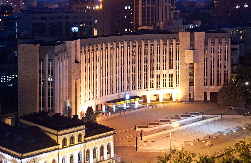 Dnipro City Hall